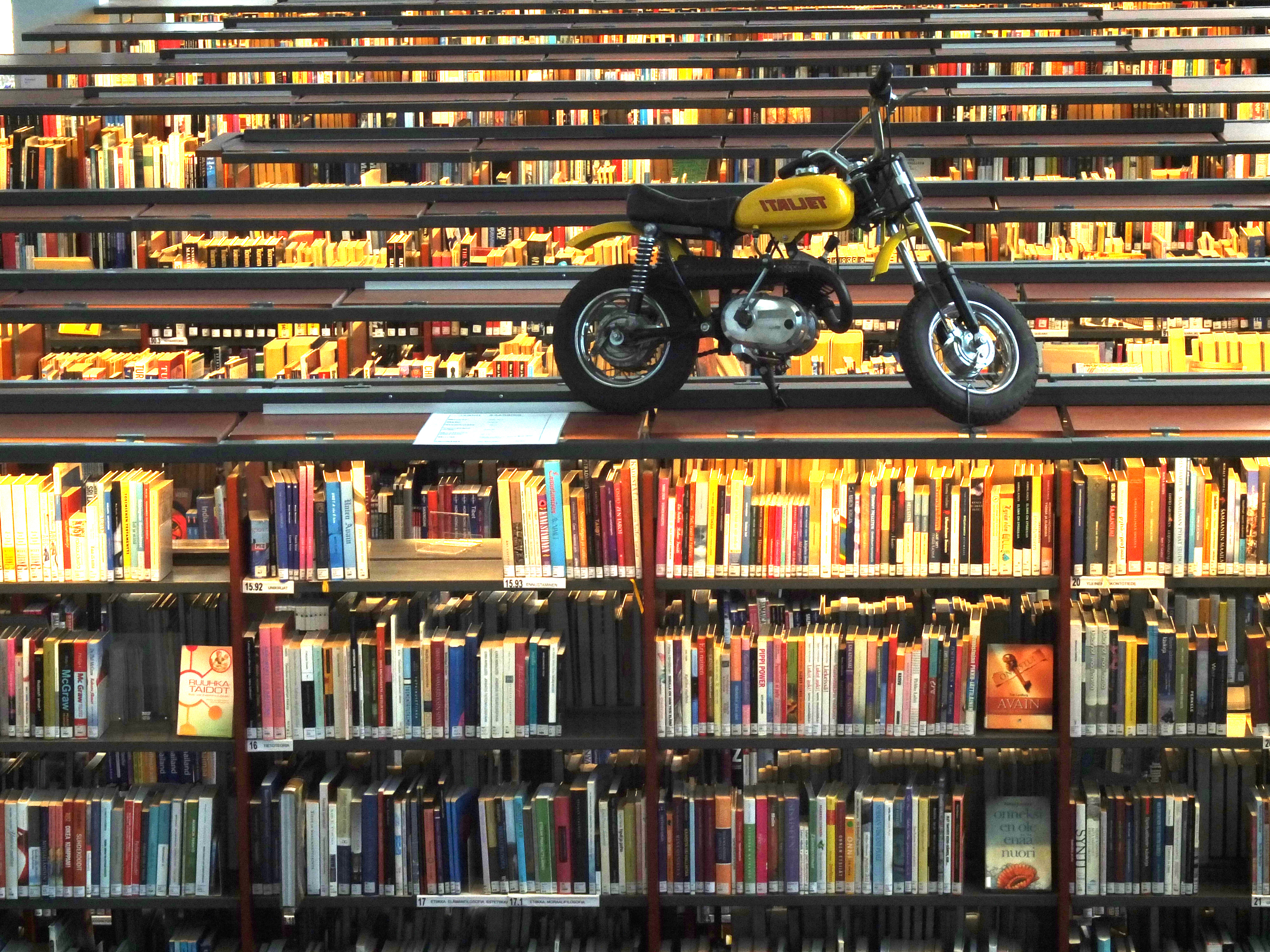 Small moped put on display on top of shelves at the city main library, Raisio, Finland, 2013.